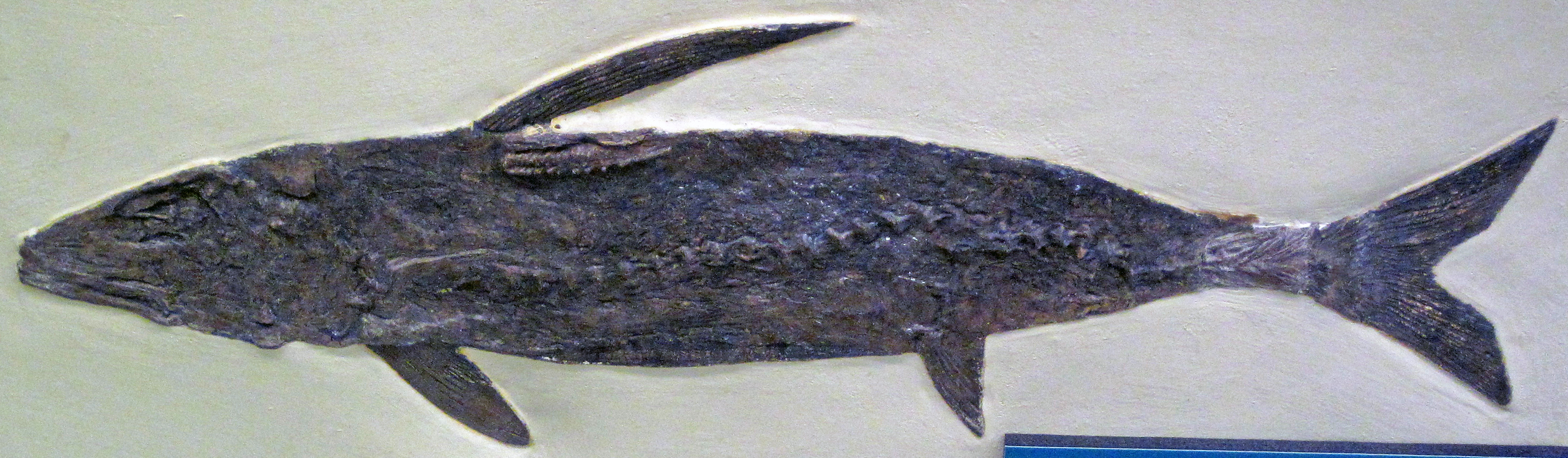 Apsopelix sp. - fossil fish from the Cretaceous of Kansas, USA. (public display, Sternberg Museum of Natural History, Hays, Kansas, USA) From museum signage: "Streamlined fishes with fins distributed along the length of their bodies were well designed for continuous swimming. Apsopelix and other fishes probably roved over wide areas hunting for food." Classification: Animalia, Chordata, Vertebrata, Osteichthyes, Actinopterygii, Crossognathiformes, Crossognathidae Stratigraphy: unspecified Upper Cretaceous unit (probably the Smoky Hill Chalk of the Niobrara Formation) Locality: unrecorded/undisclosed site in Logan County, western Kansas, USA